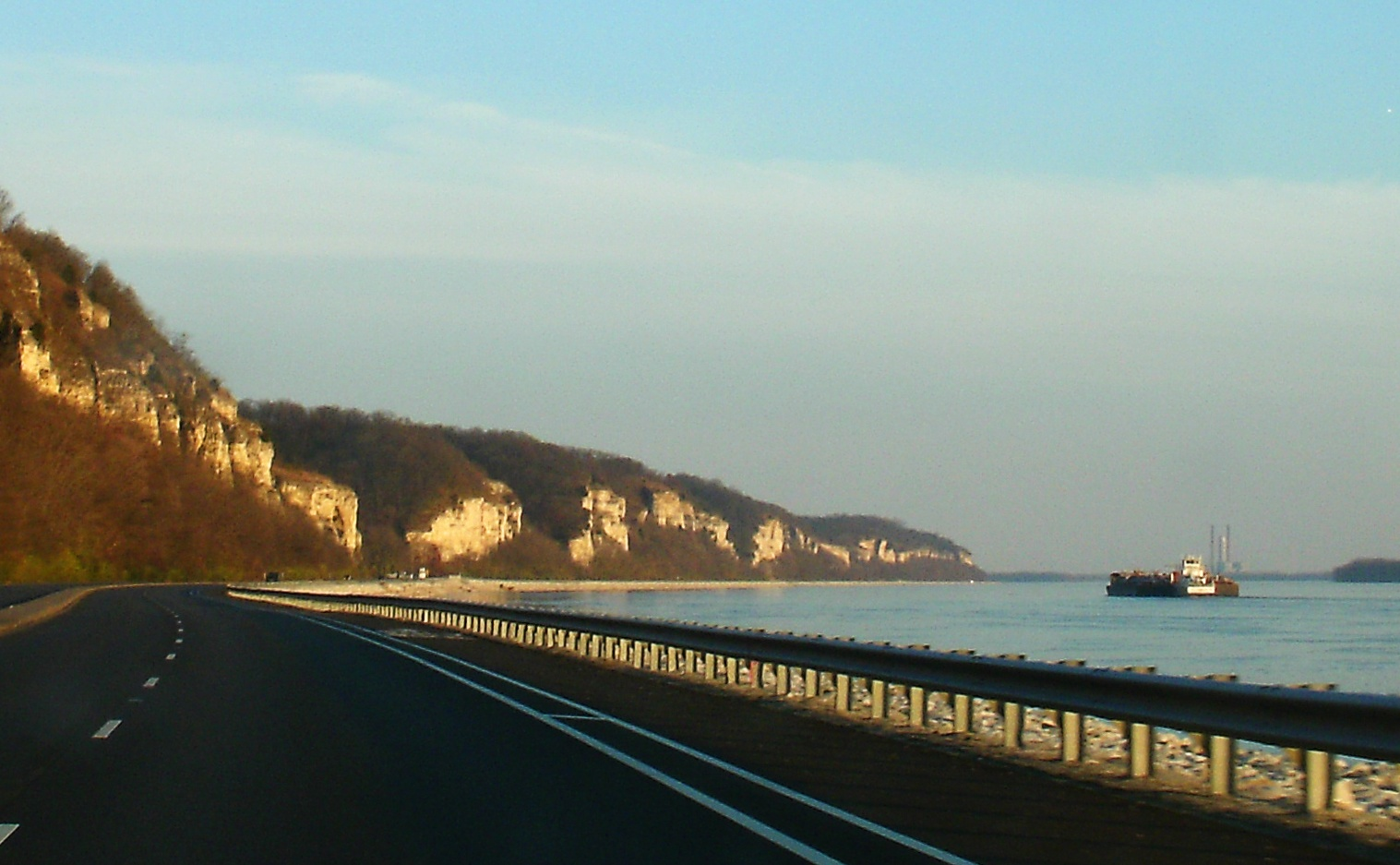 The Great River Road along the Mississippi River one mile (1.6 km) east of Grafton, Illinois. The view is due east (downstream). This image has been modified slightly from the original: The saturation and contrast have been enhanced to compensate for the effects of being photographed through a car's windshield, it has been rotated 1.08° to level, and it has been cropped.